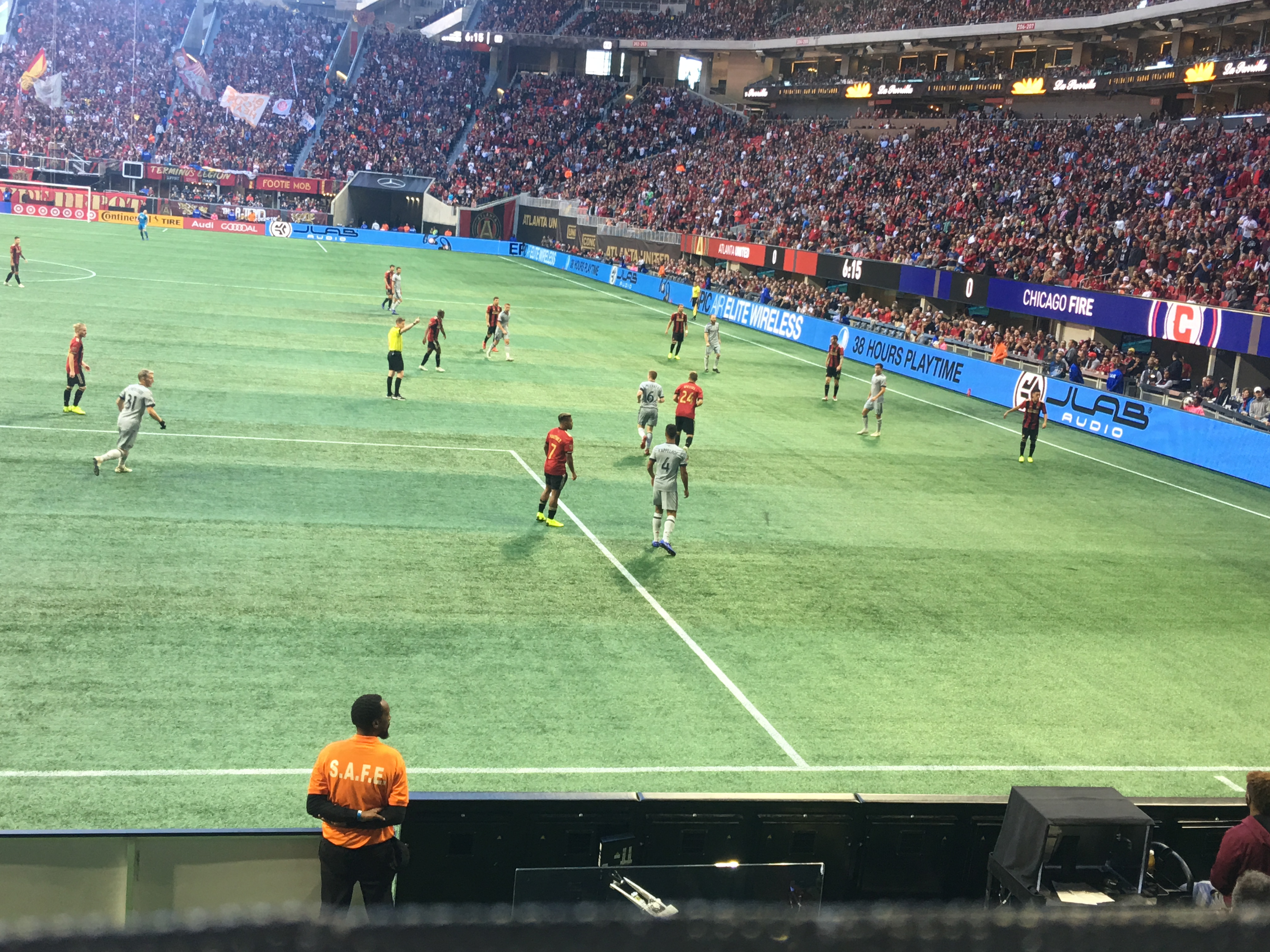 2018-10-21 - Atlanta United vs Chicago Fire